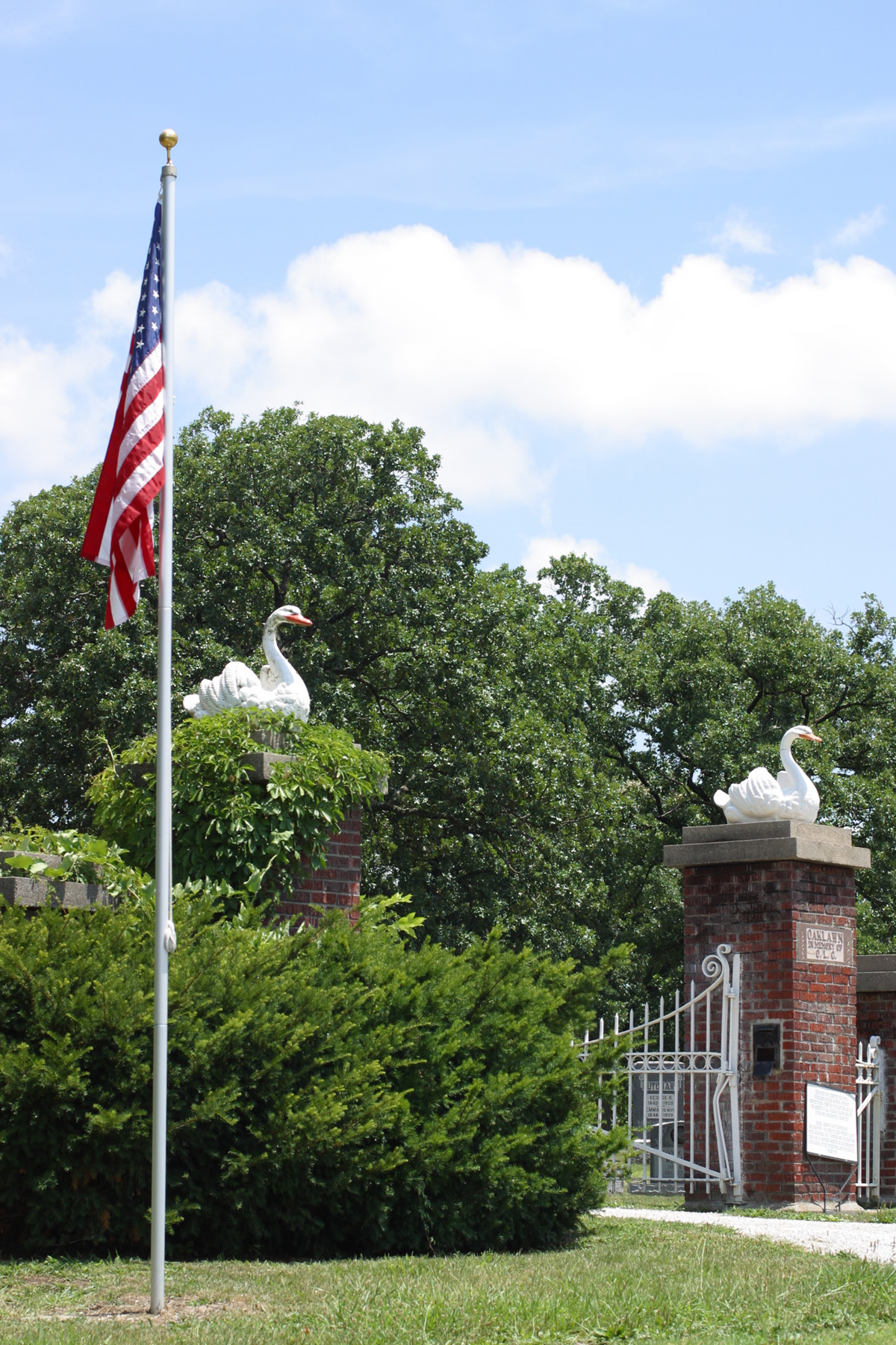 Swans in Oaklawn Cemetery in La Cygne, Kansas. Numerous swans like these can be found around the city of La Cygne.